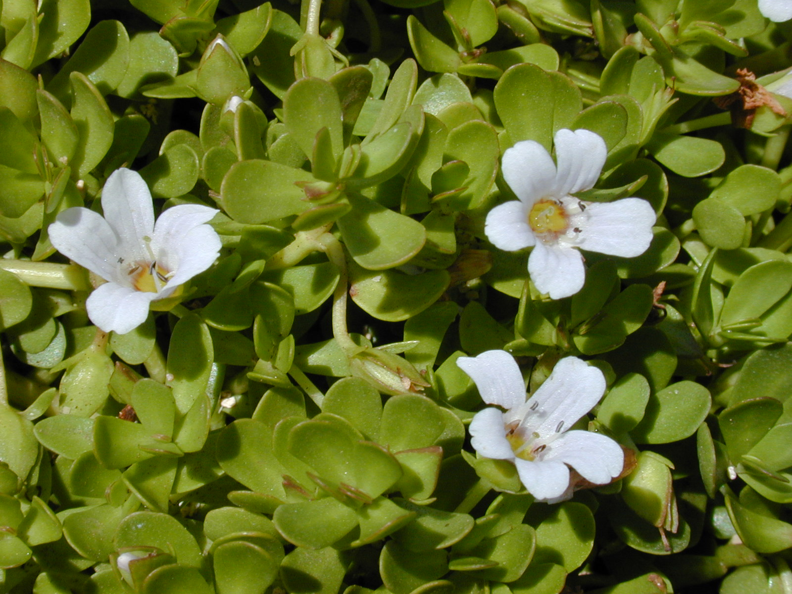 Bacopa monnieri (flowers and leaves). Location: Maui, Kanaha Beach stream outlet